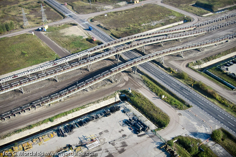 Widok z lotu ptaka